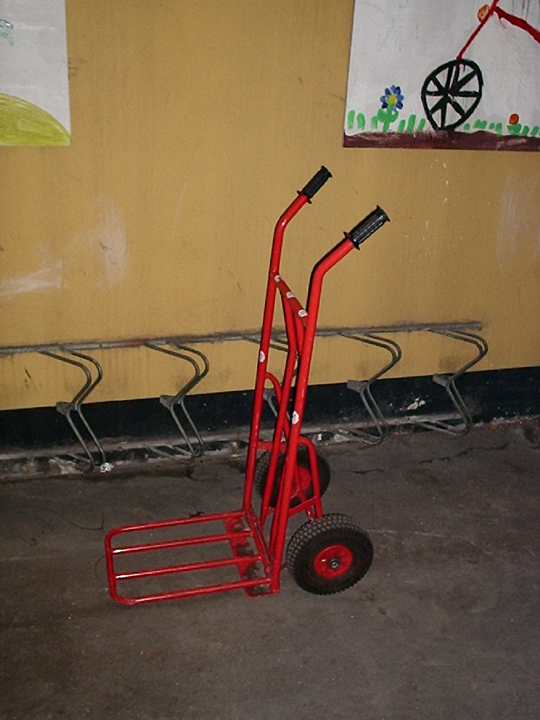 Handtruck, dolly or several other names The bottom frame can fold up, so that only the metal plate is used for carrying goods.